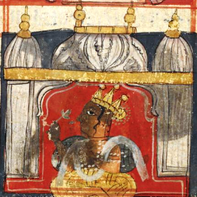 celestrial palace of 14 auspicious dreams in Jainism